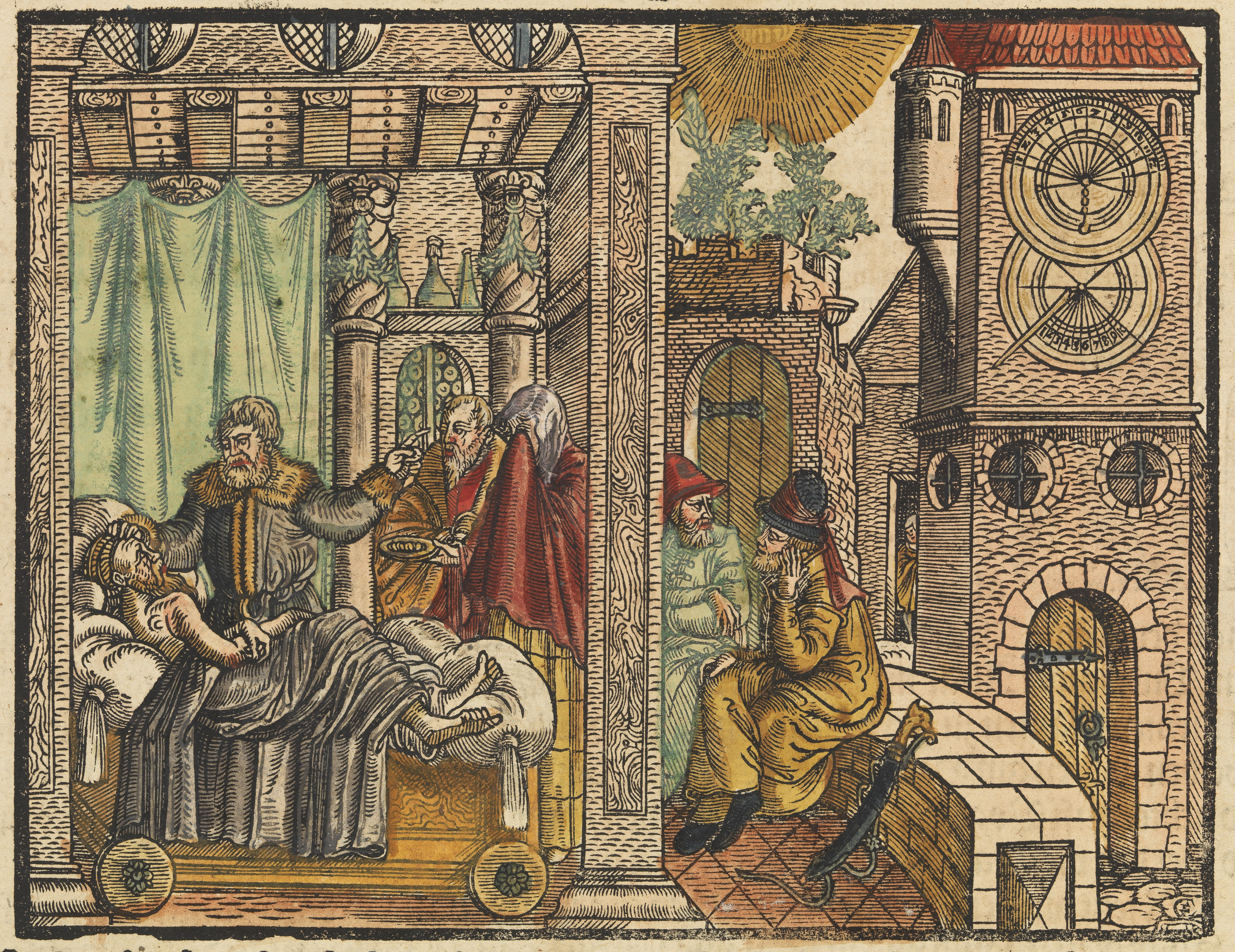 King Hezekiah on his sickbed asks Isaiah for a sign that he will recover. Coloured woodcut, 15-- Physical description 1 print : woodcut and letterpress, with watercolour ; image and border 11.6 x 15.1 cm. Lettering Hiskia von den Konigen. Hiskia aber sprach zu Jesaia, Welches ist das Zeichen, das mich der Herr wird gesund machen ... Summary 2 Kings 20.8; the same episode in Isaiah 38.22 Cite as Wellcome Library no. 772024i Subject name Hezekiah, King of Judah. Isaiah (Biblical prophet) Topic-LCSH Sick. Genre/Technique Woodcuts. Copy photo no. L 72163 sheet L 72164 woodcut Iconographic Collections Keywords: name